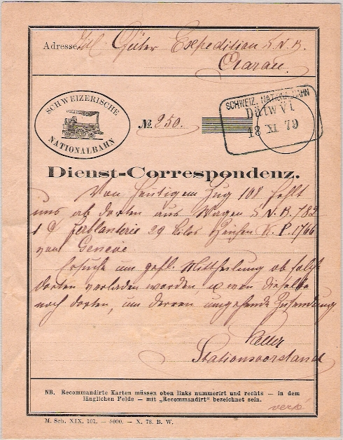 Office correspondance card of the Swiss National Railway, Dättwil station.